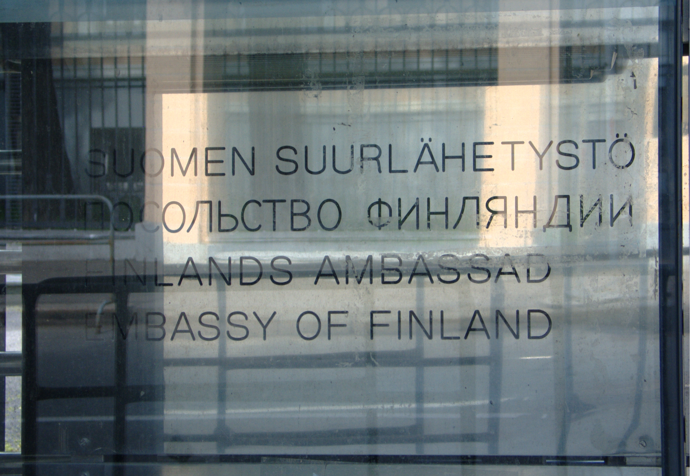 A plate on the Embassy of Finland in Moscow (Kropotkinskiy side-street 15/17).